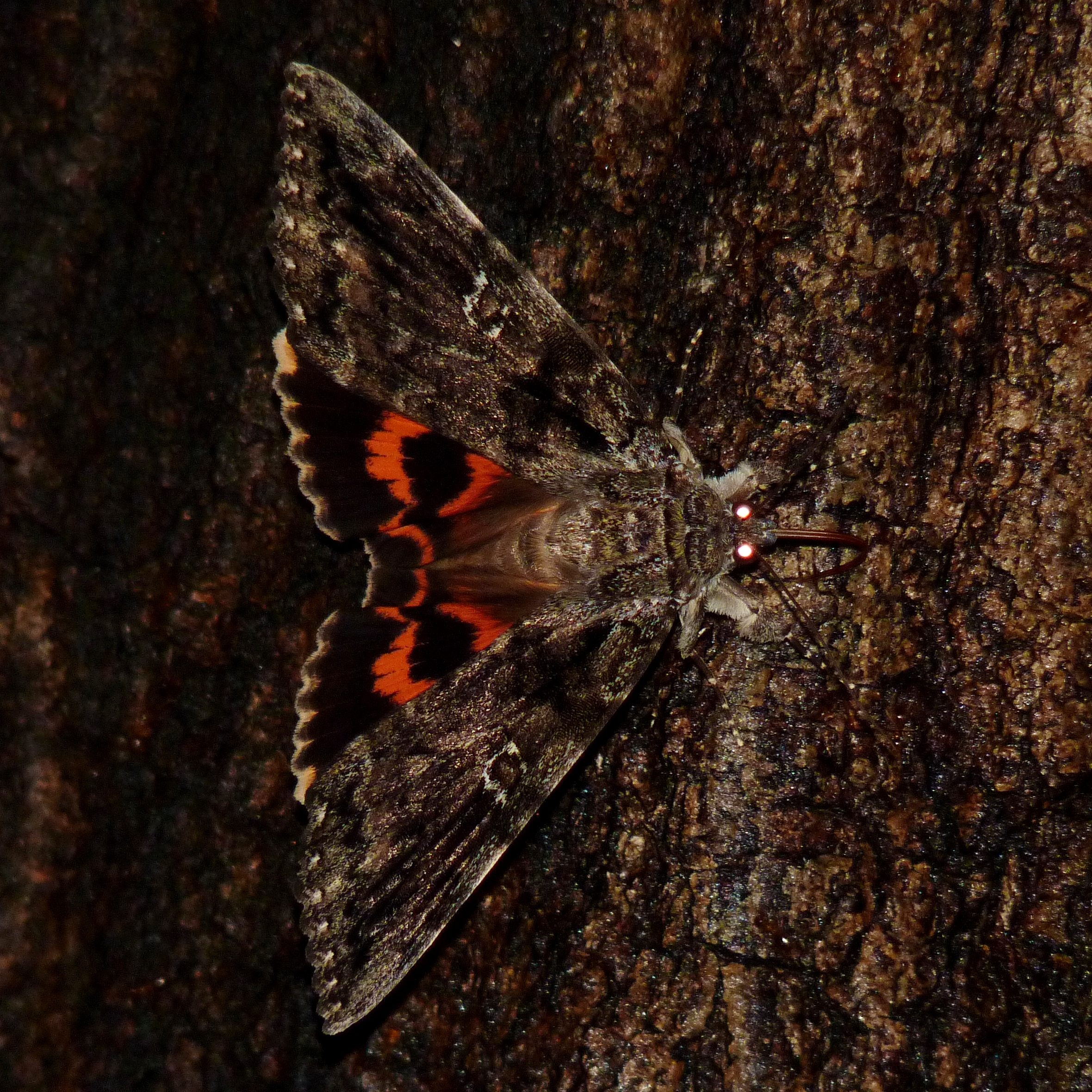 Ilia Underwing (Catocala ilia) – Hodges#8801 BugGuide / MPG I think this is the first Catocala moth that I've seen.